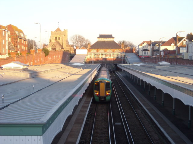 Railway Station, Bexhill-on-Sea A London Victoria to Hastings service stops to pick up passengers at Bexhill Station.